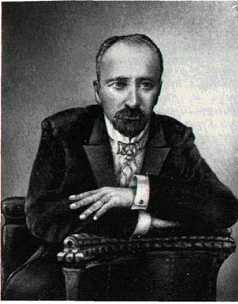 Józef Goslawski (1865 - 1904)